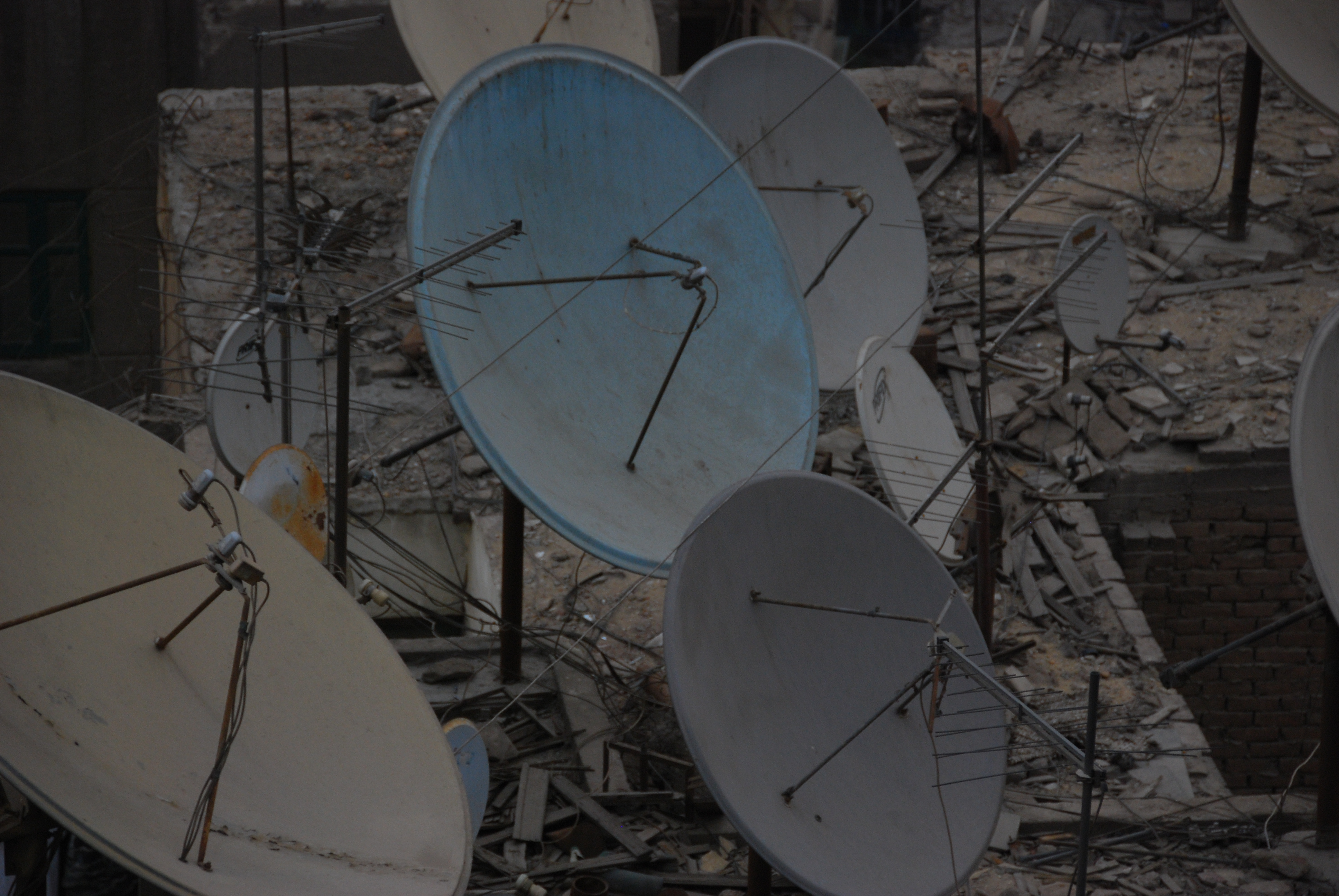 satellite dishes on the roof of a buiding in central Cairo